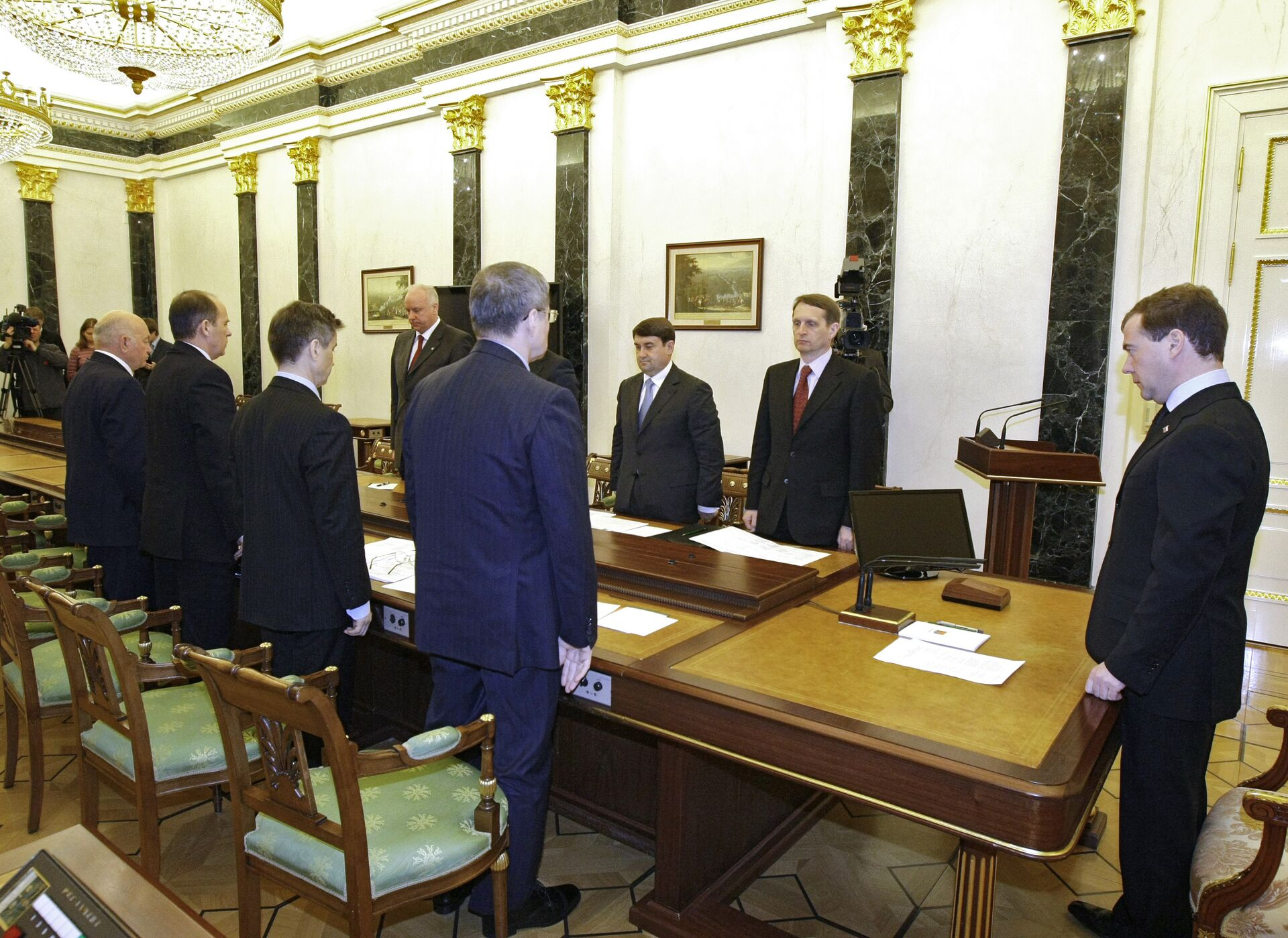 THE KREMLIN, MOSCOW. Before the start of a special meeting following the terrorist attacks in the Moscow metro. The meeting’s participants observed a minute of silence in memory of the victims.